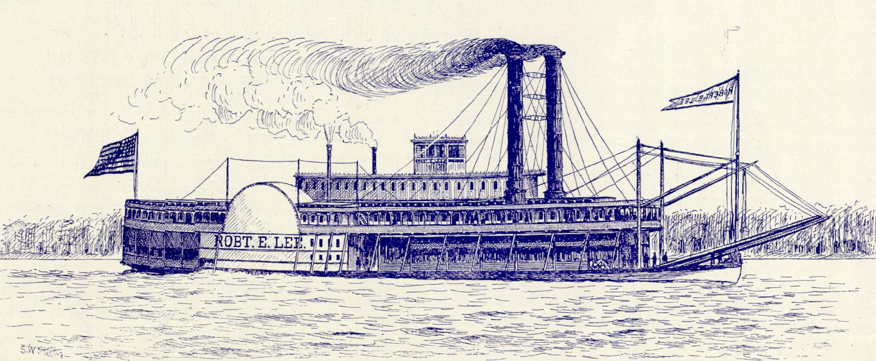 Steamboat Robert E. Lee